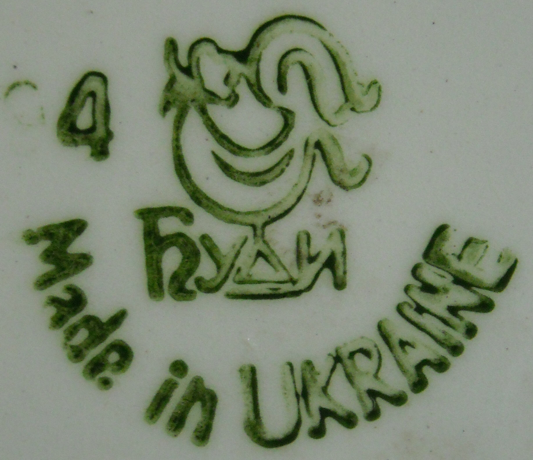 A picture of the dishes made with one's own hand. Stamp on a plate made at the Budyansk plant (1991-). Export stile